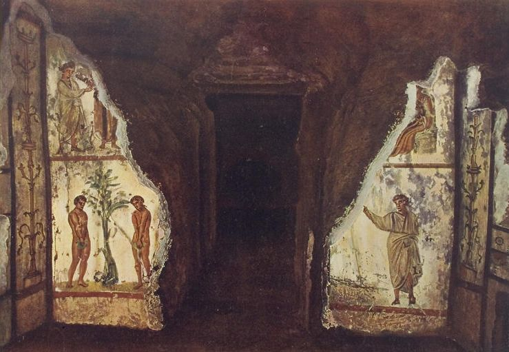 Catacombs of Saints Marcellinus and Peter (photo by Wilpert, Joseph. Die Malereien der Katakomben Roms, 1903)